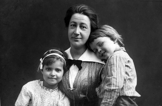 Nadezhda Ivanovna nee Orlova, second wife of Ruf Yakovlevich Smirnov, Russian doctor, a member of the second Russian State Duma and his children from first marriage Lidia and Sergei